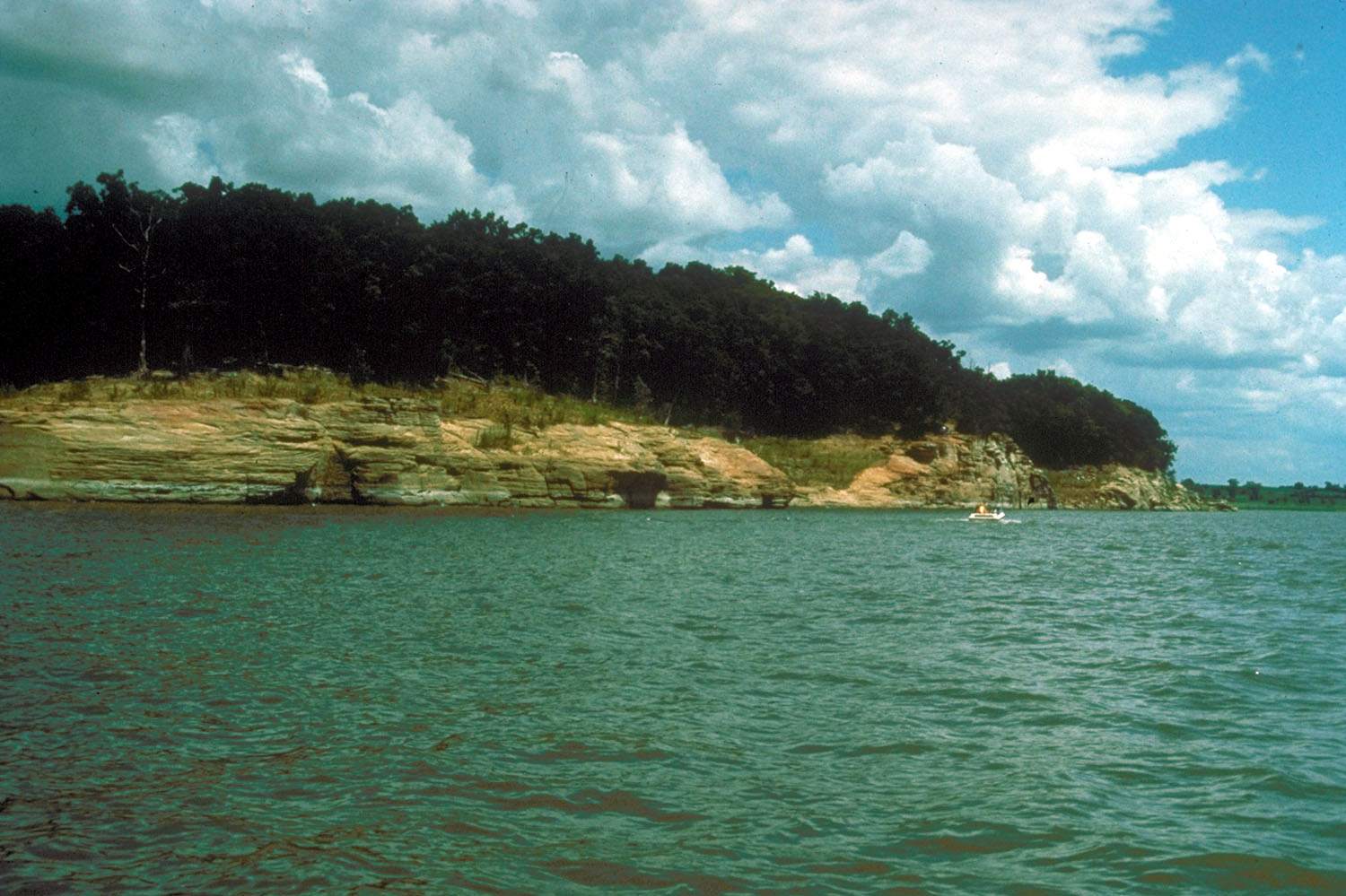 Red Rock Lake, also known as Red Rock Reservoir, in Marion County, Iowa, USA. The lake is impounded by Red Rock Dam, which was constructed by the U.S. Army Corps of Engineers in 1969 for flood control on the Des Moines River. The lake is located approximately 55 miles (88 km) southeast of the city of Des Moines, Iowa. Coordinates: 41°24′50.03″N 93°5′16.24″W / 41.4138972°N 93.0878444°W